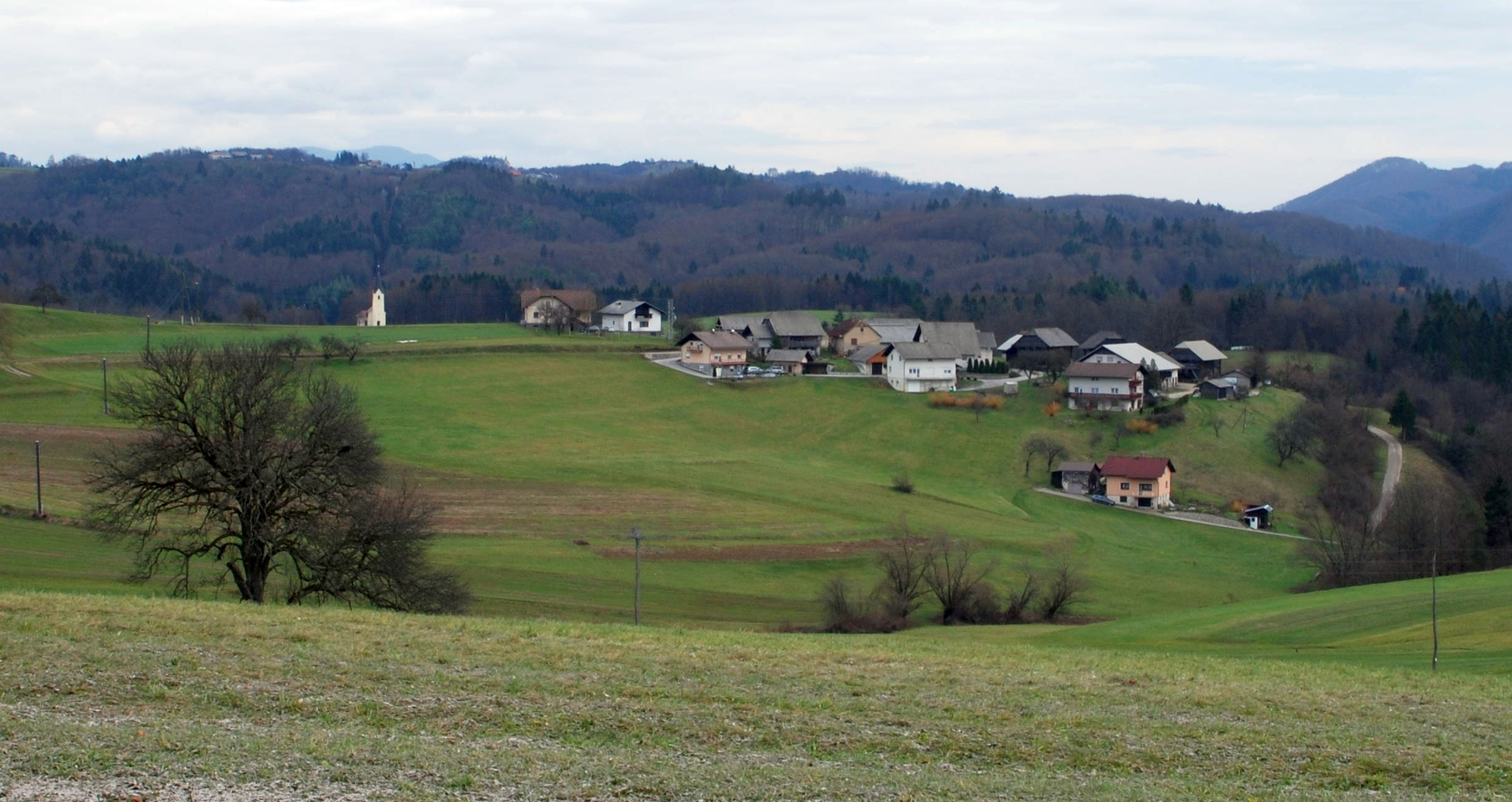 The village of Brezje in the Municipality of Sevnica from the southwest (above the village of Hinjce). The church to the left is St. Margaret's Church and belongs to the village of Kamenica.